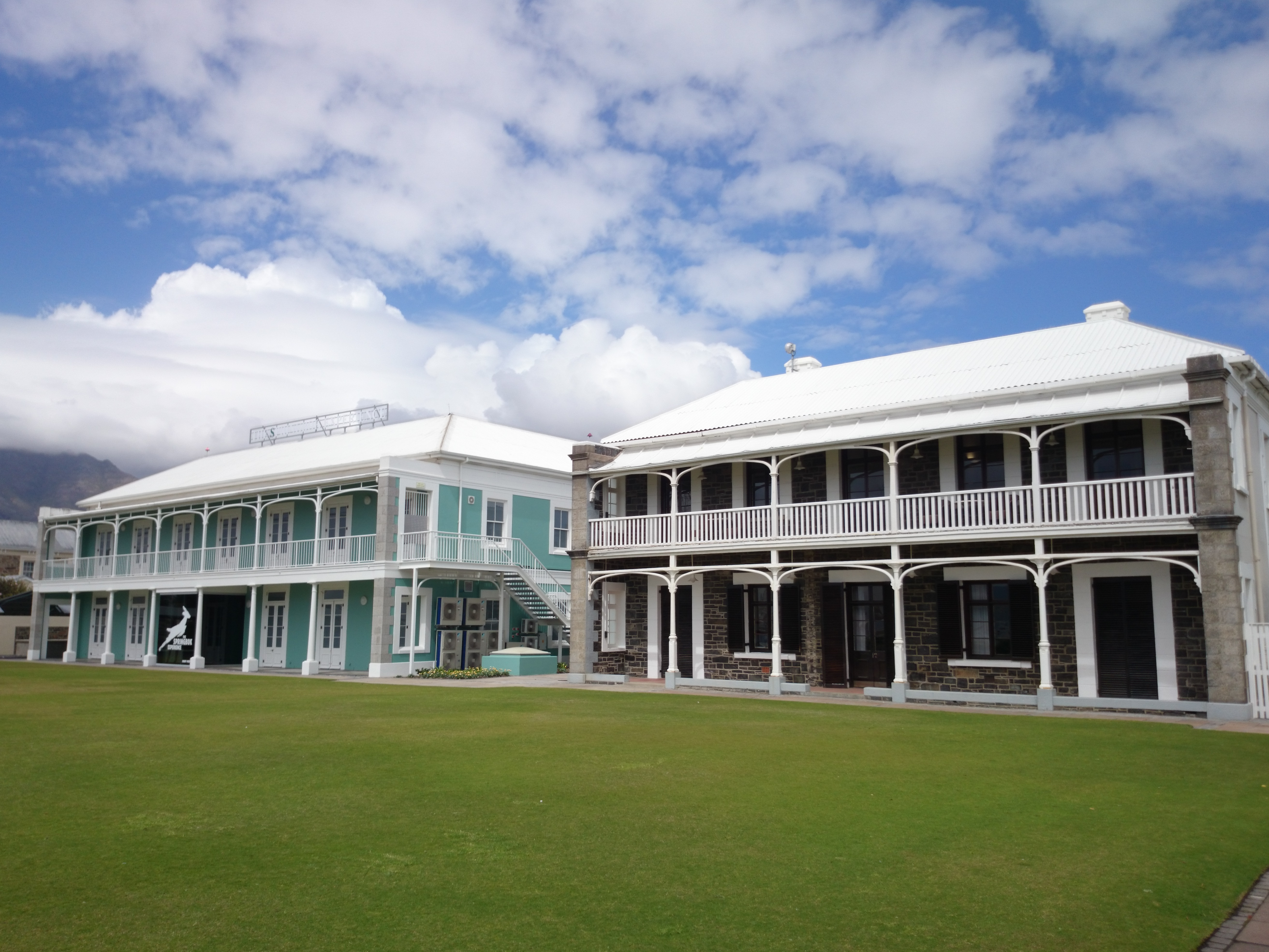 The Springbok Experience Rugby Museum